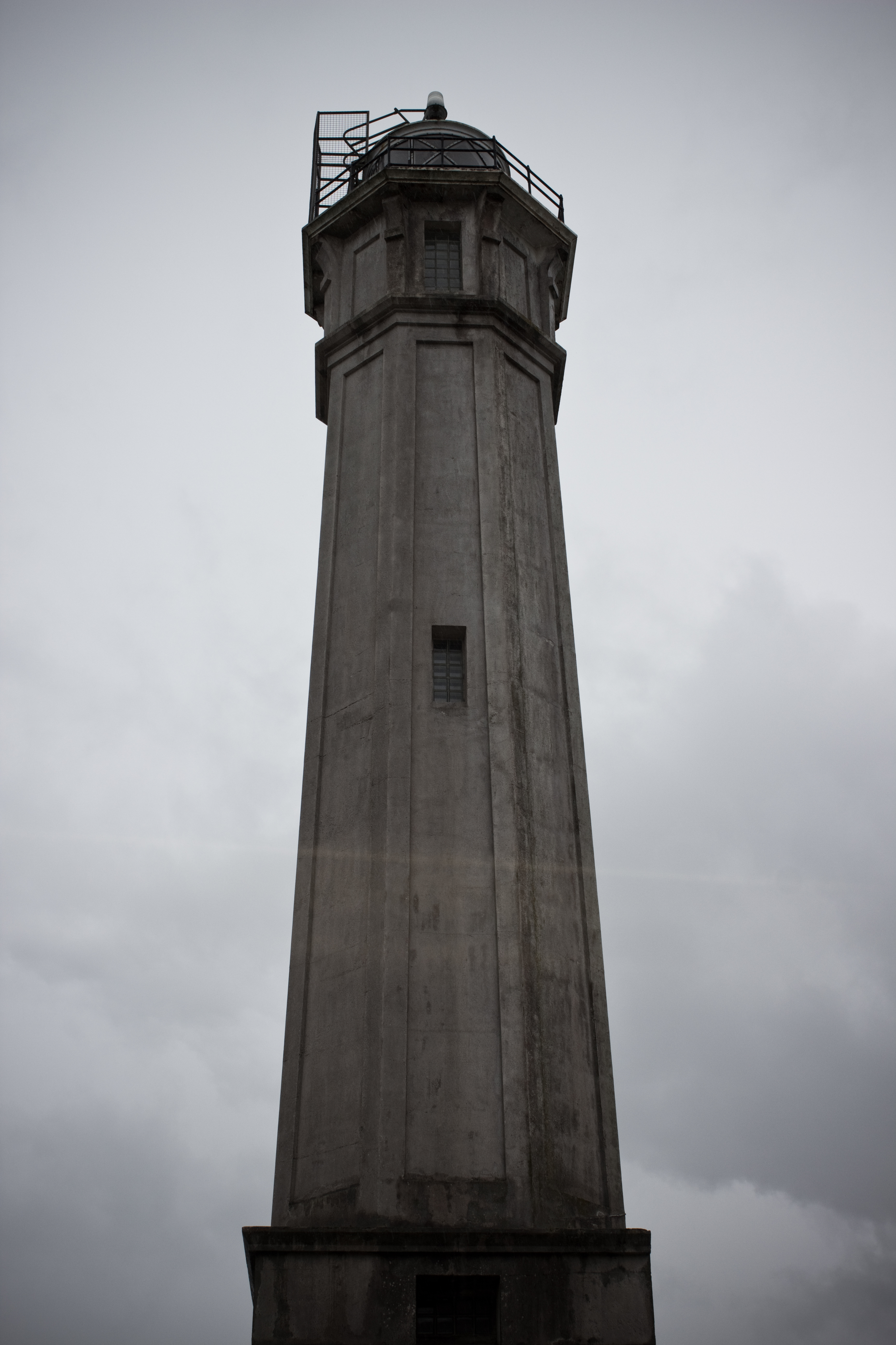 Touring the cellhouse on Alcatraz Island on a very rainy day.